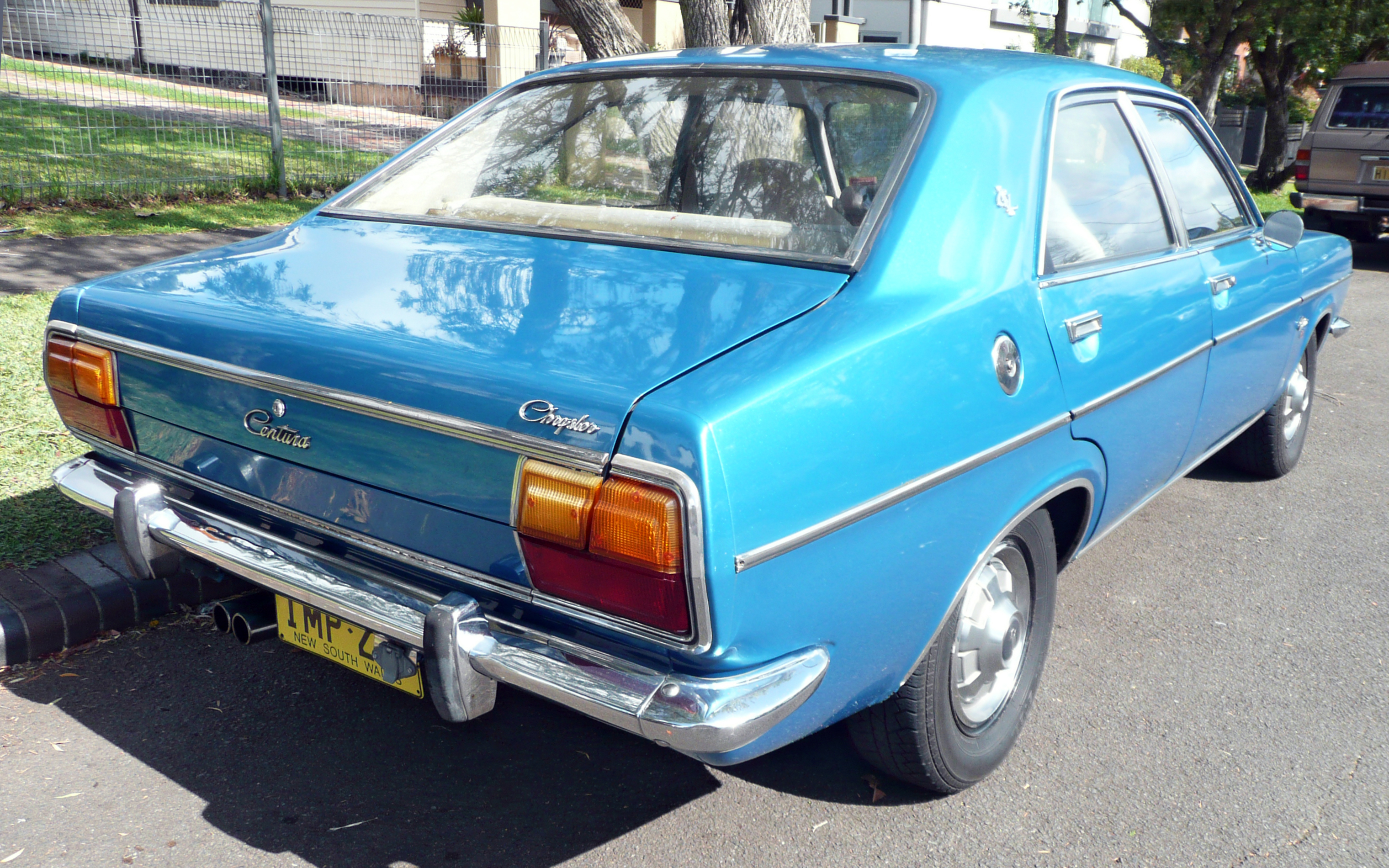 1975–1977 Chrysler Centura (KB) GL sedan. Photographed in Sutherland, New South Wales, Australia.